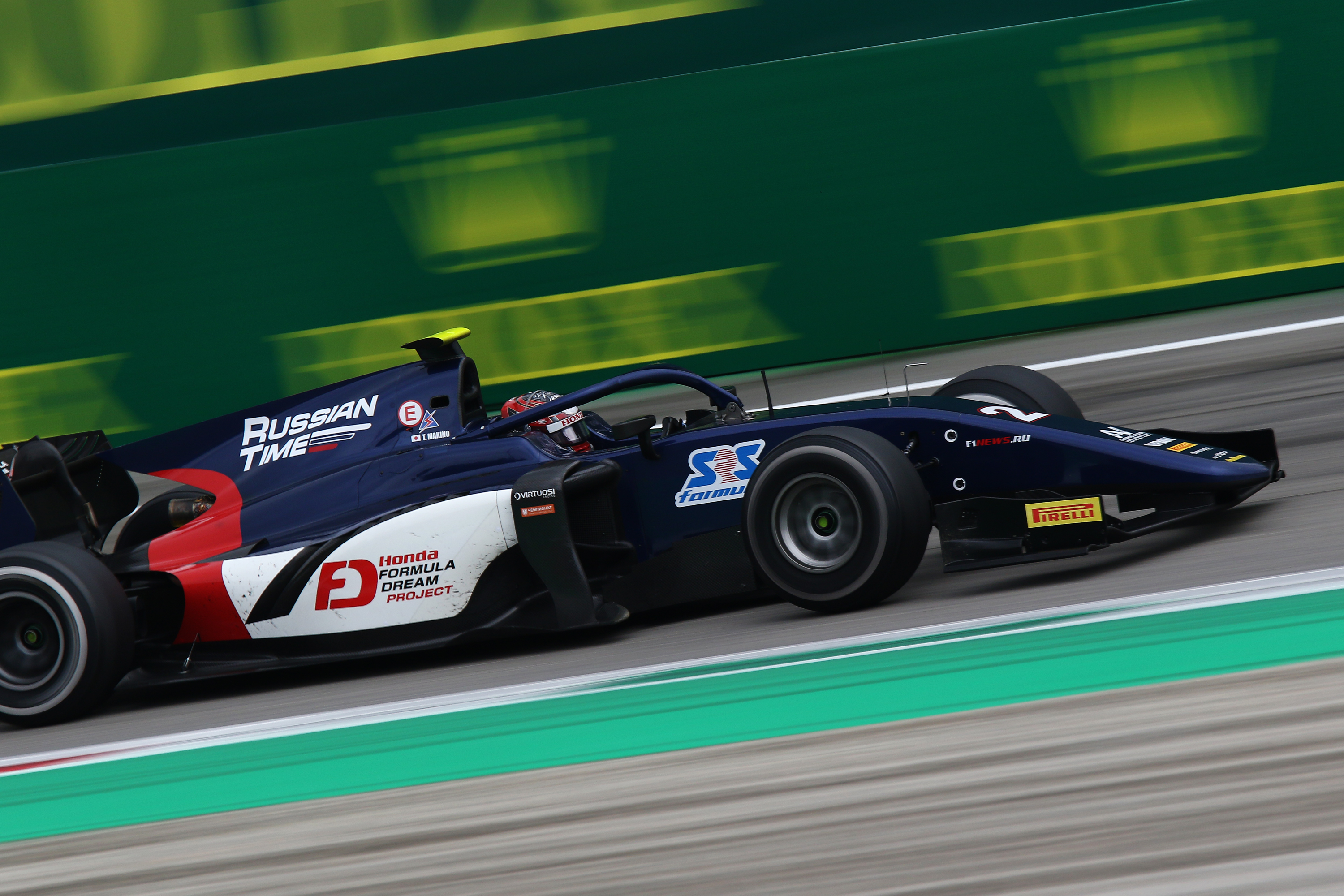 2018 FIA Formula 2 Championship, Autodromo Nazionale Monza.